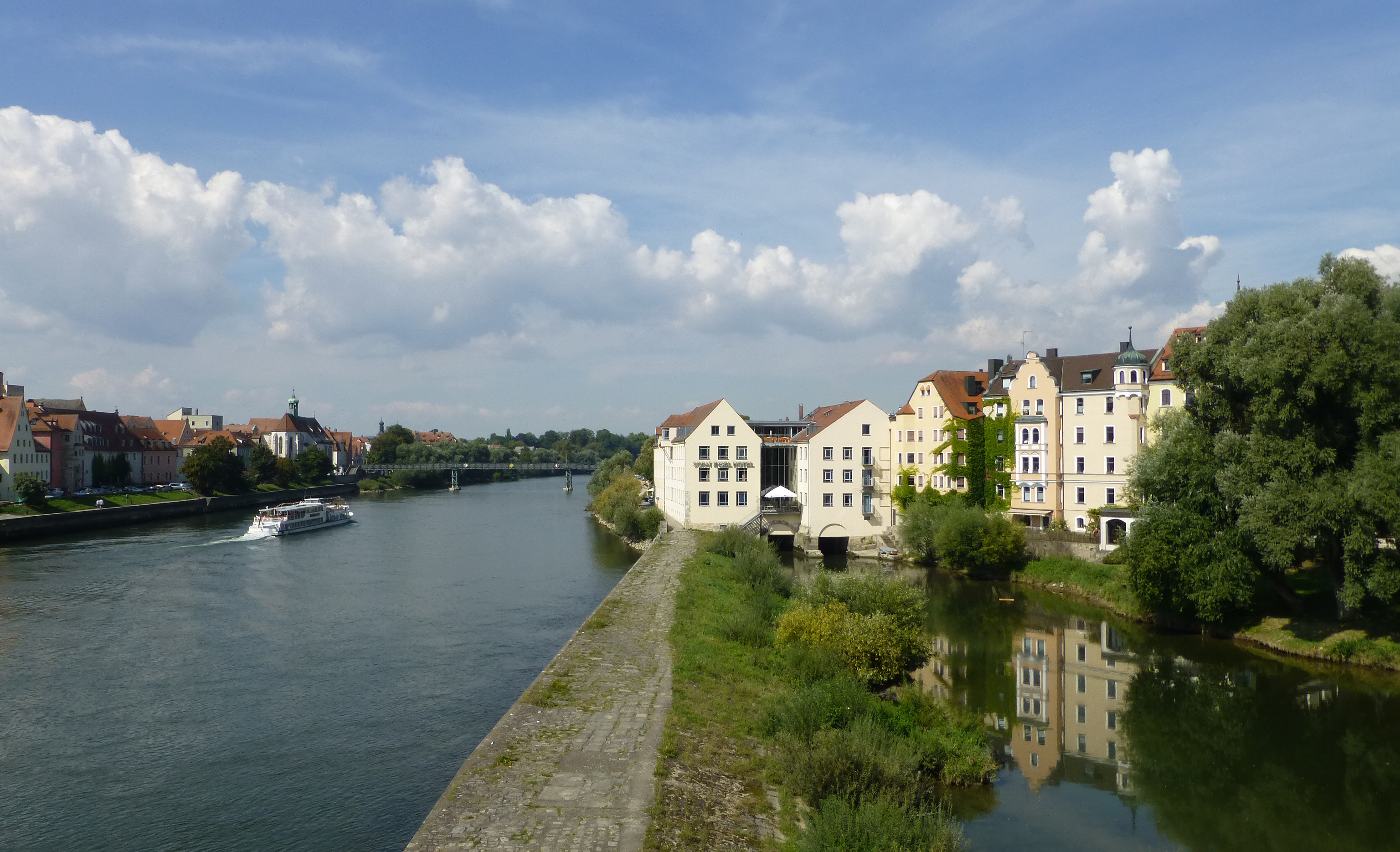 View to the west from the Regensburg Stone bridge. Insel Hotel.